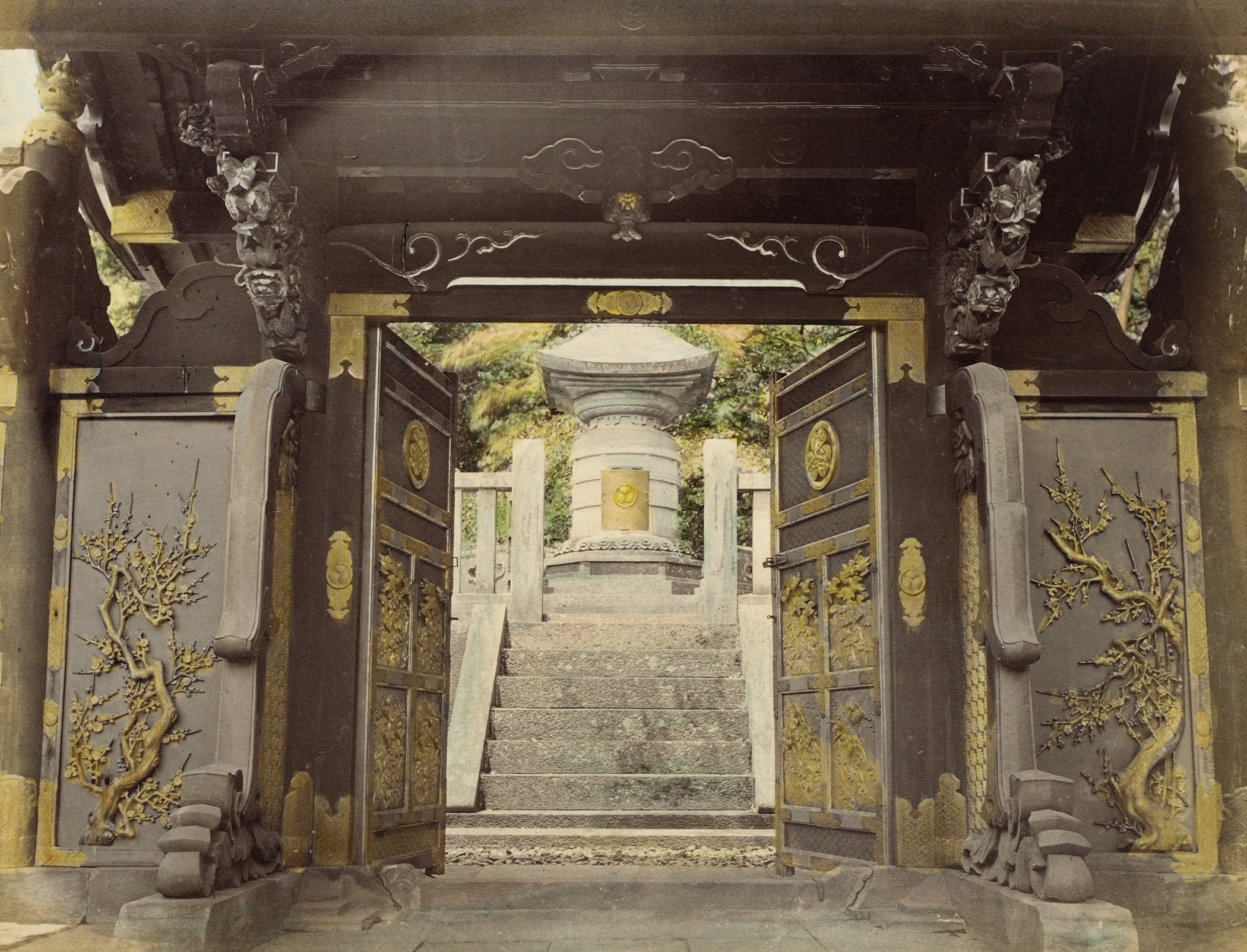 1865 Photographs Albumen print, hand-colored Unframed: 8 1/4 x 10 1/2 in. (20.96 x 26.67 cm) Gift of Mrs. Ruthe Feldman in memory of Philip Feldman (M.91.377.44) Photography